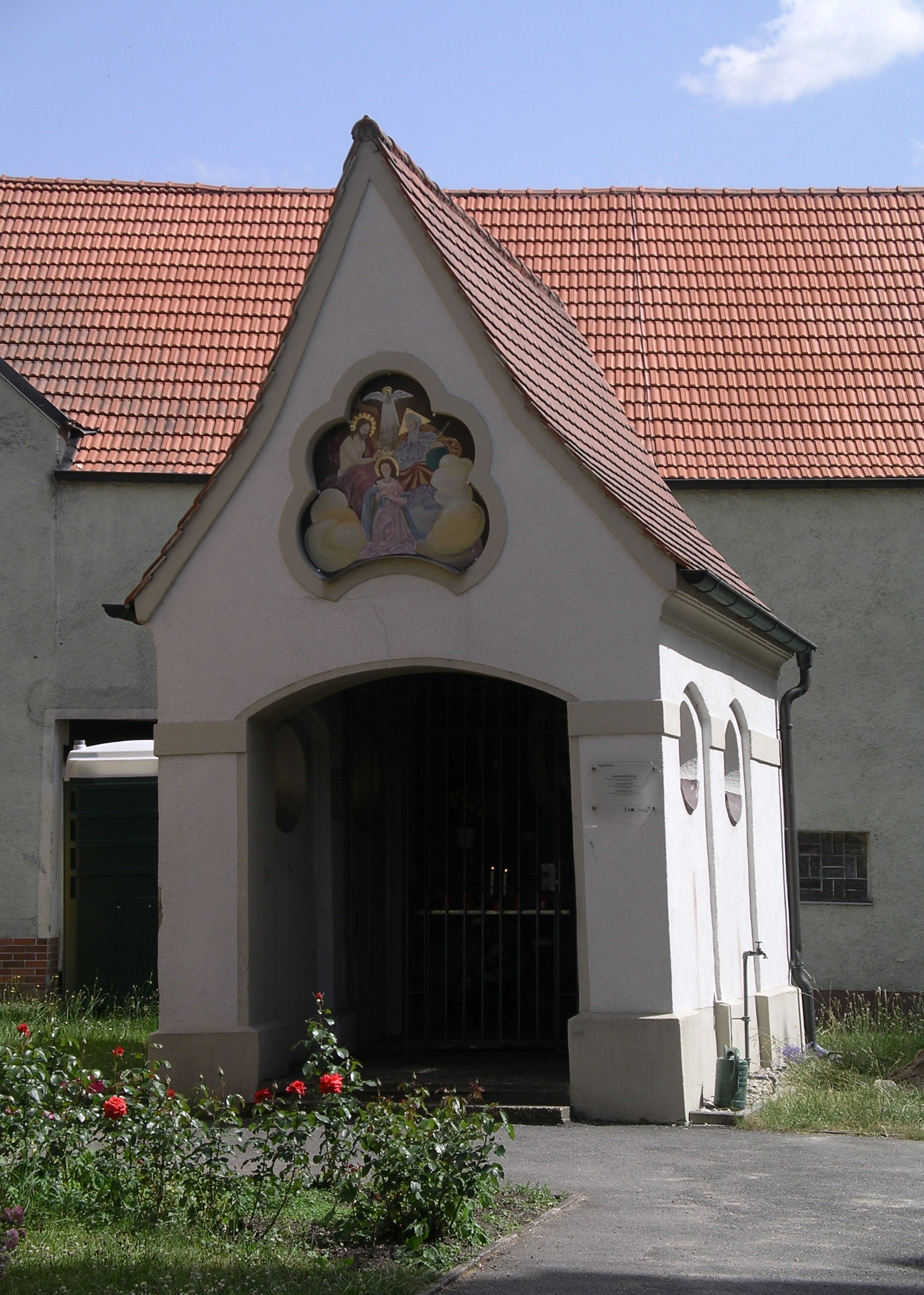 Lourdes chapel on St. Vitus churchyard in Schnaittenbach, Germany.